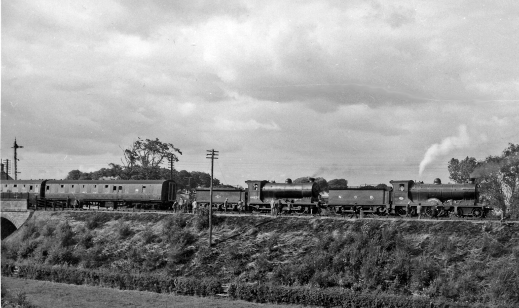 RCTS Borders Rail Tour at Roxburgh. View NE - Roxburgh left, Kelso right; ex-North British St Boswells - Kelso - (Tweedmouth) line. Another view of Restored D34 4-4-0 No. 256 and J37 0-6-0 No. 64624. For details see NT6930 : A Rail Tour train at Roxburgh Station in 1961; see also Walter Baxter's recent image.